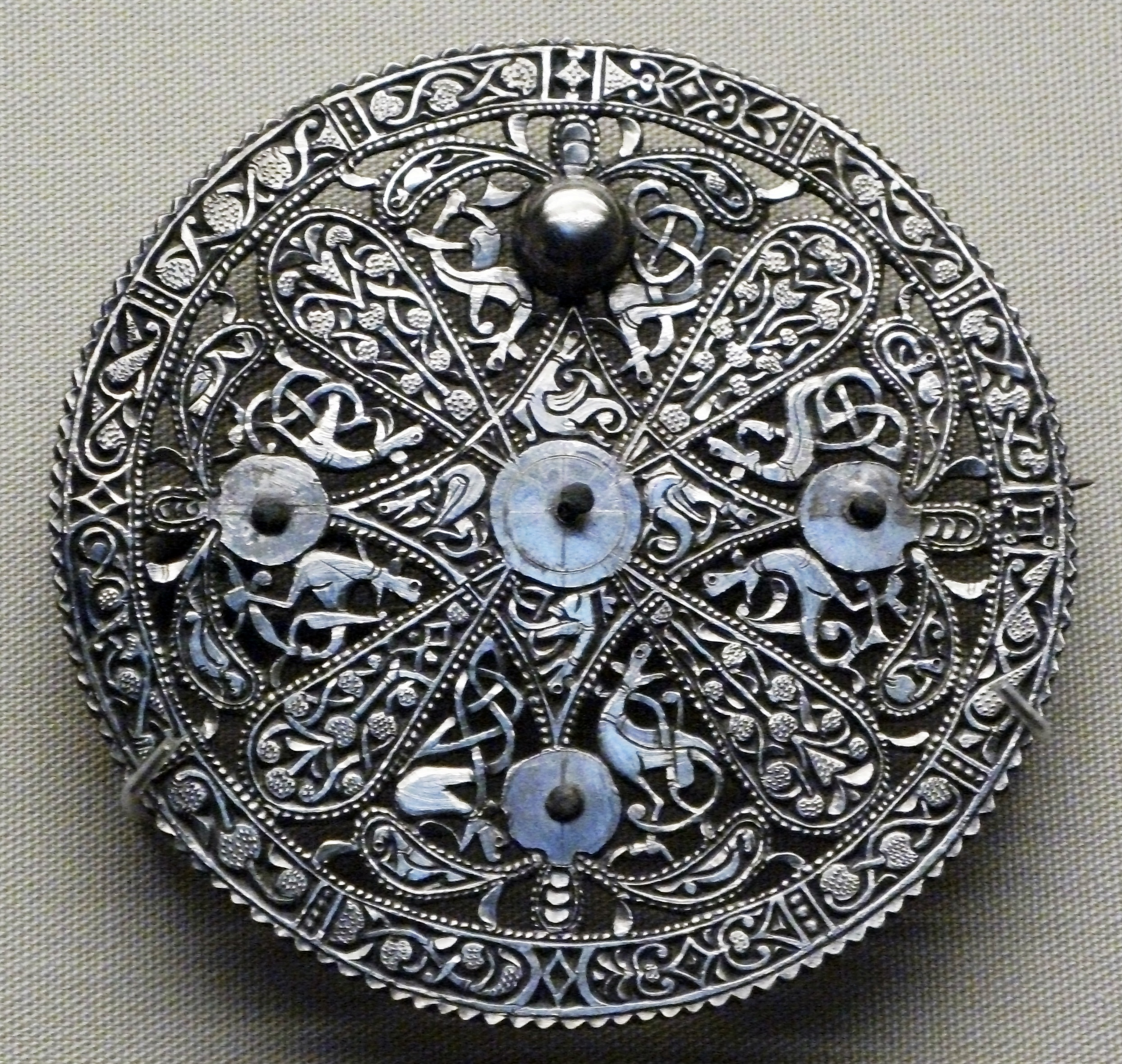 Anglo-Saxon openwork silver disk brooch, British Museum, 1980,1008.1 BM page from the Pentney Hoard